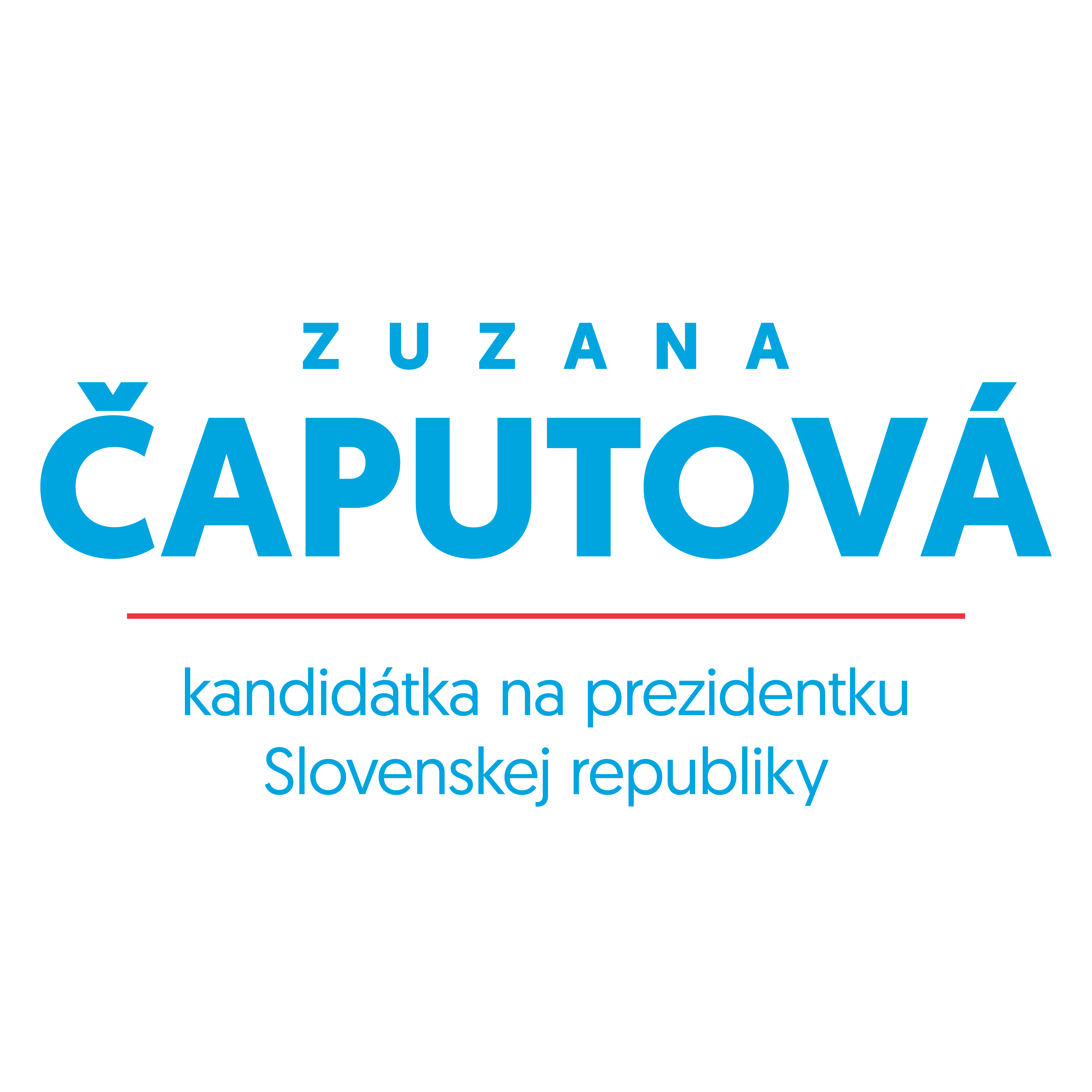 Campaign logo of Zuzana Čaputová for the Slovak presidential elections, 2019